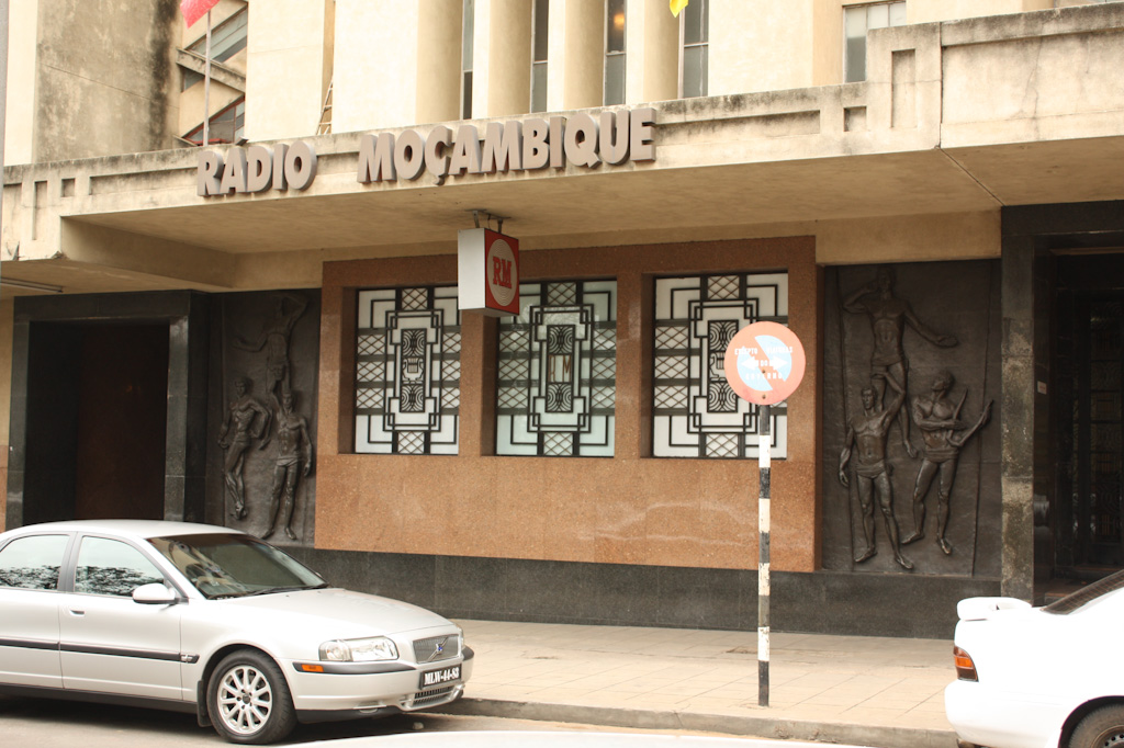 Rádio Moçambique building in Maputo, Mozambique